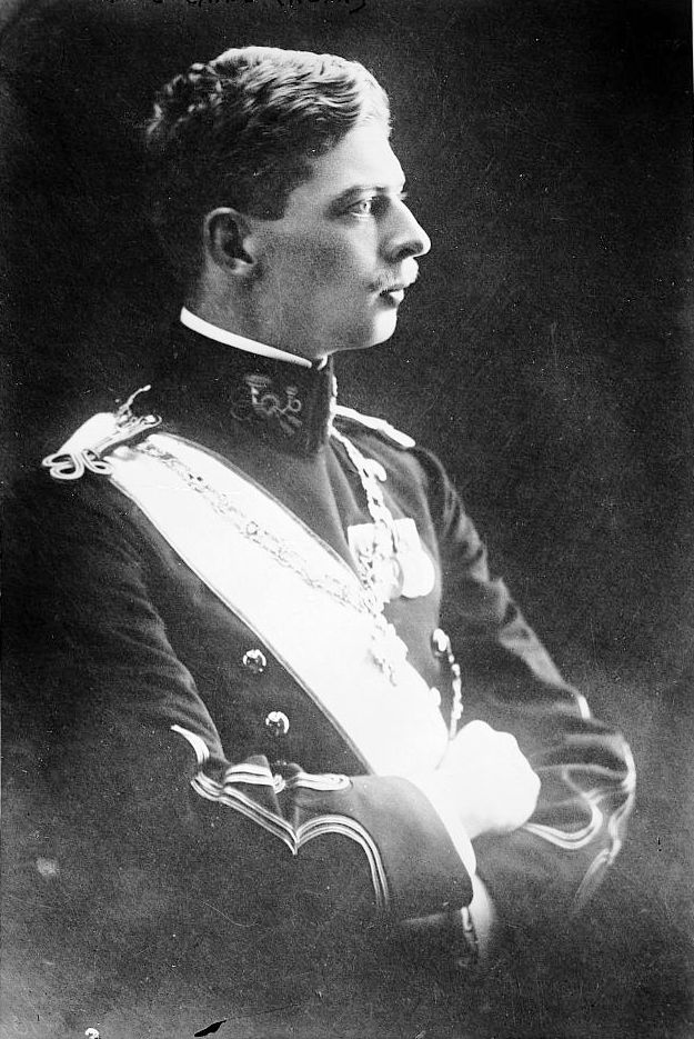 King Carol II of Romania — when young (20th century).